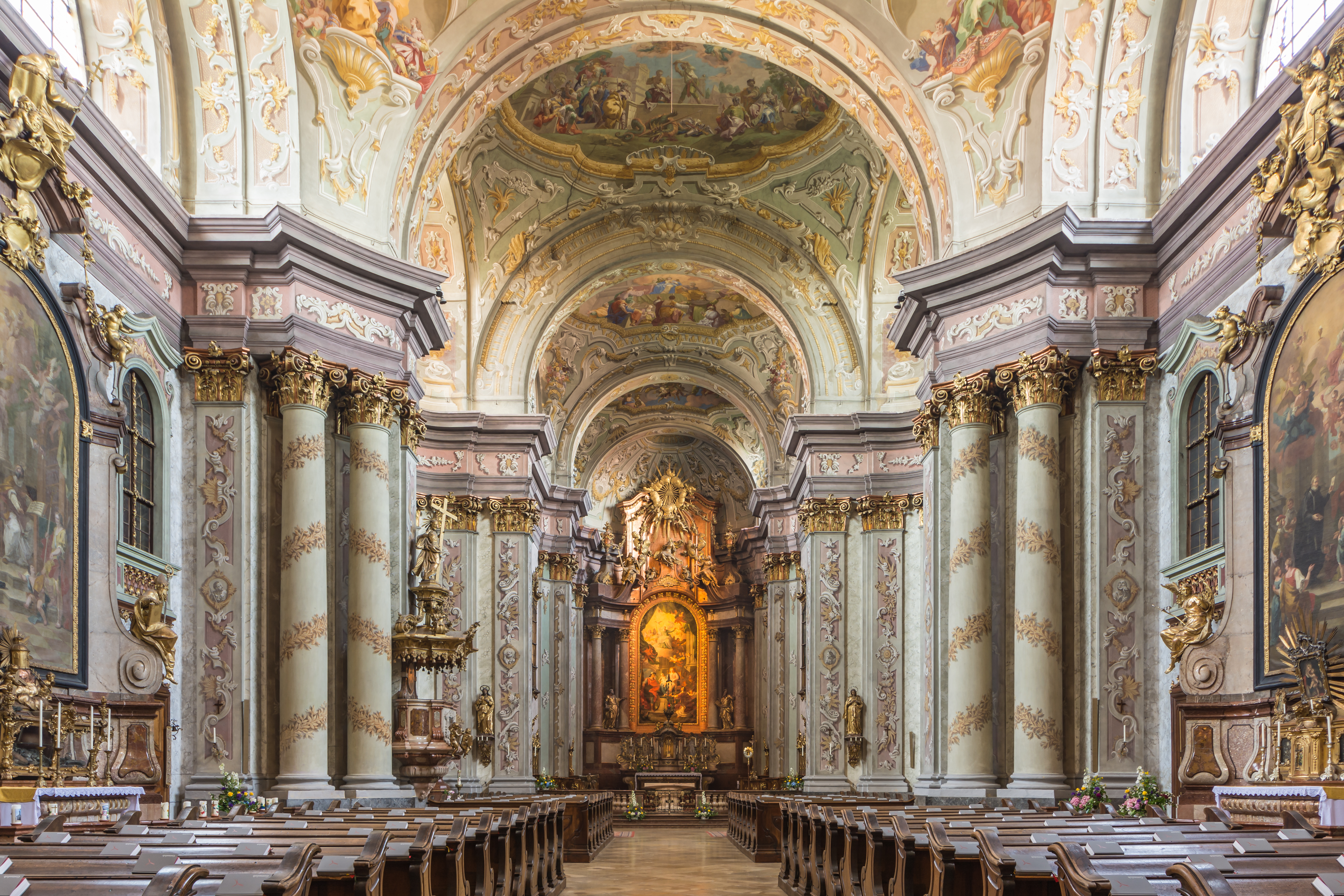 Interior of Herzogenburg Abbey Church, Lower Austria